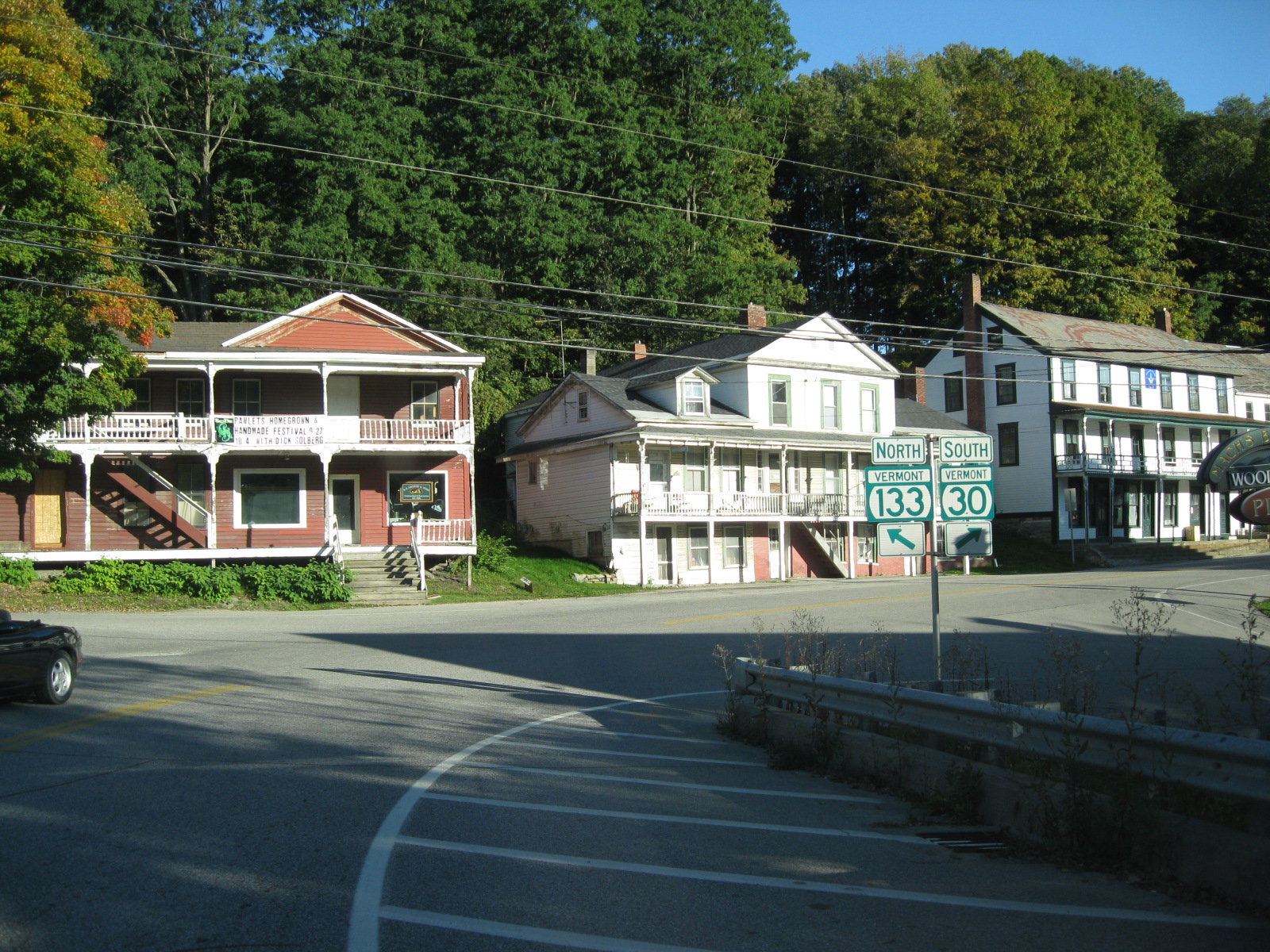 The view of the southern terminus of Route 133 at Route 30 in Pawlet, Vermont.